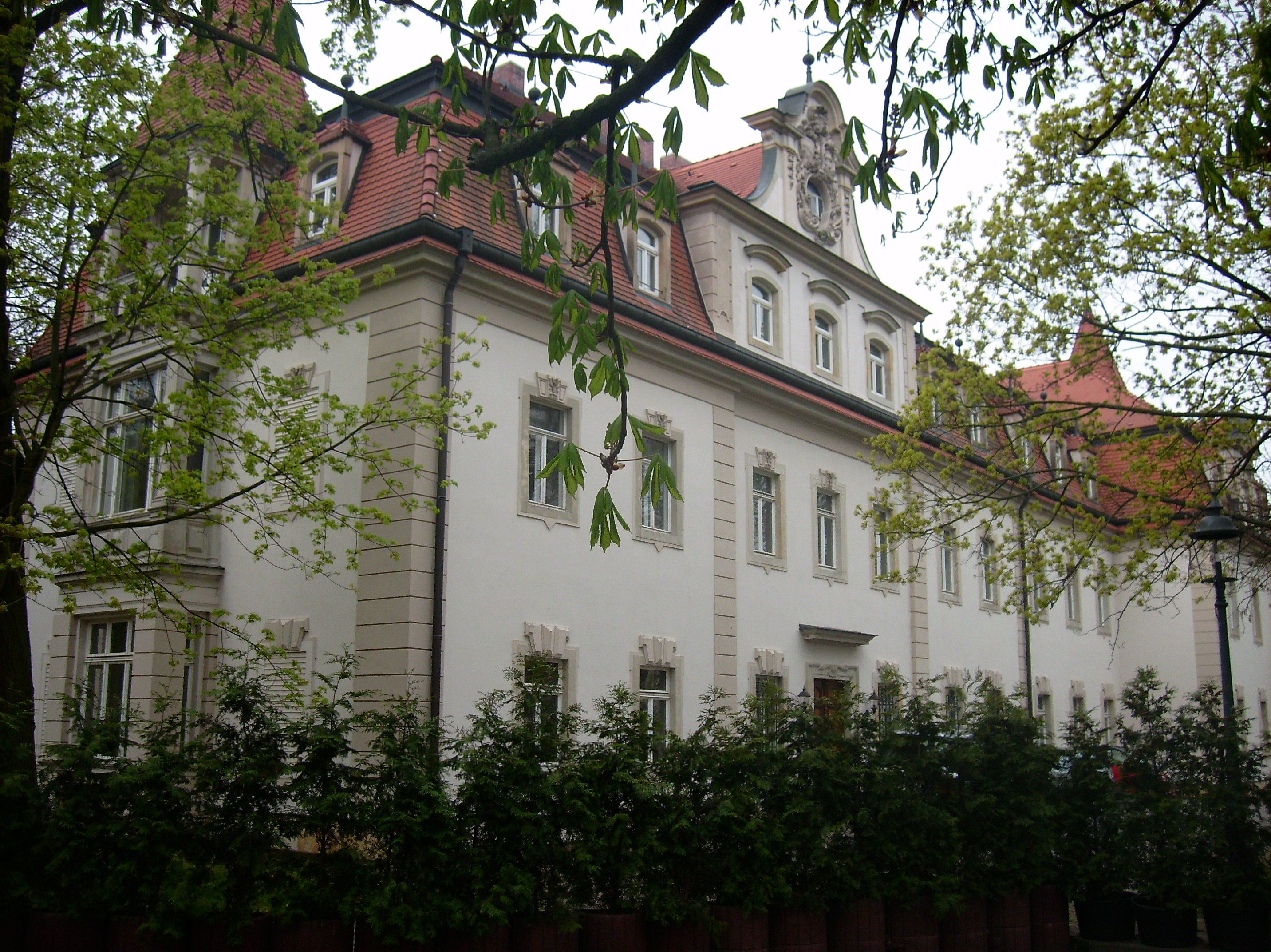 Dornreichenbach Castle (Lossatal, Leipzig district, Saxony)